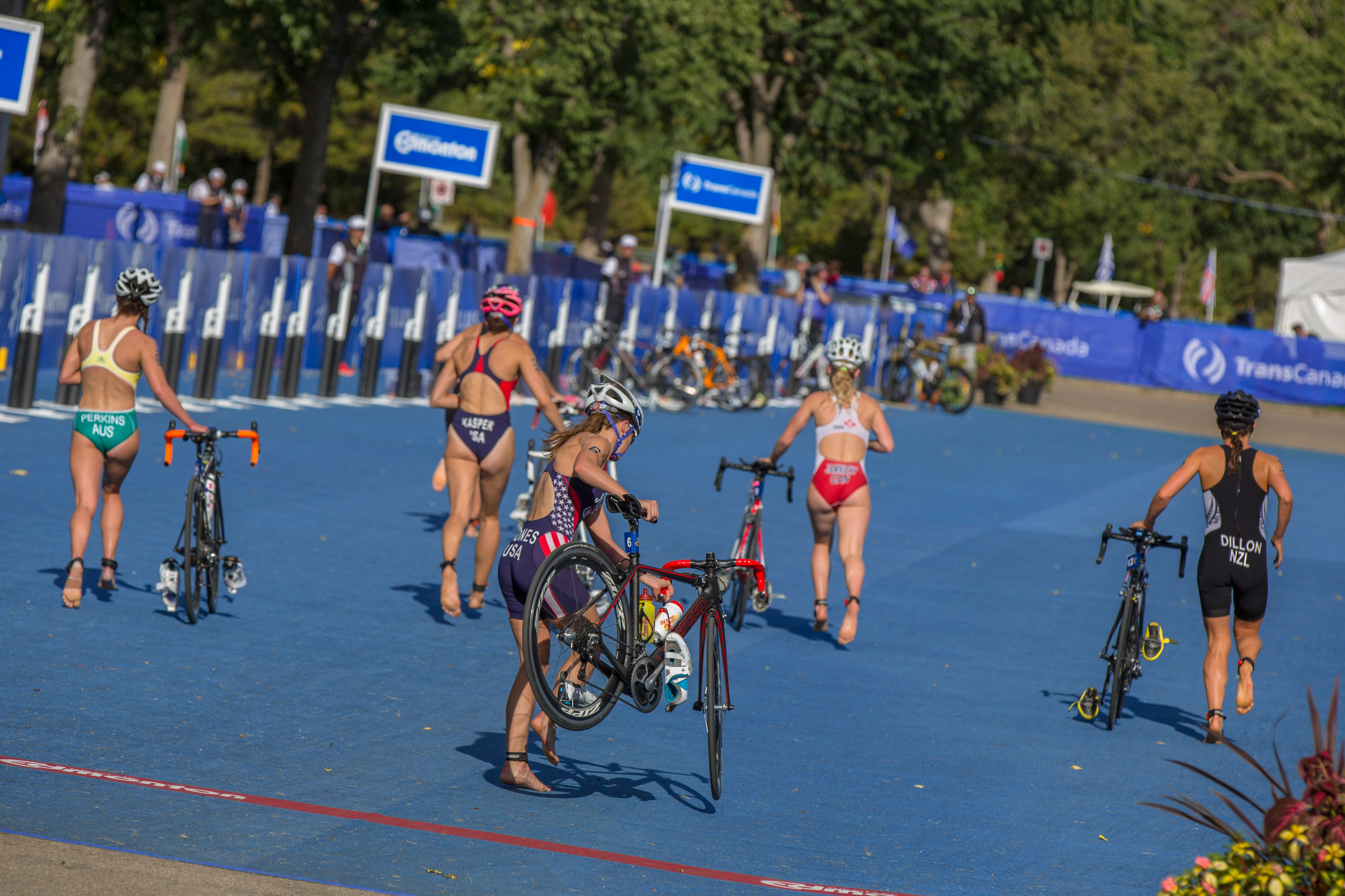 U23 Women Championship